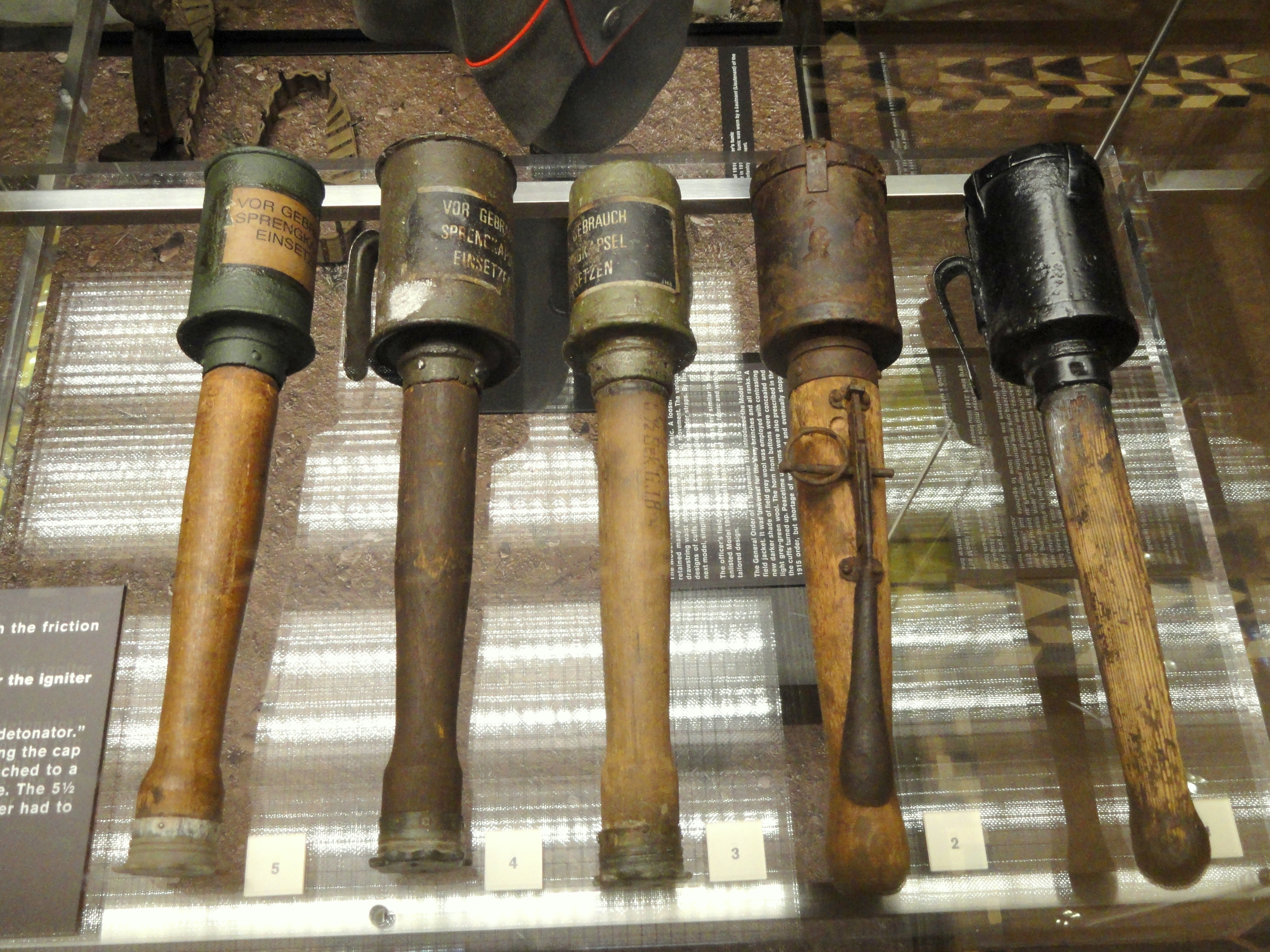 Hand grenade exhibit in the National World War I Museum at the Liberty Memorial, 100 W. 26th Street, Kansas City, Missouri, USA.